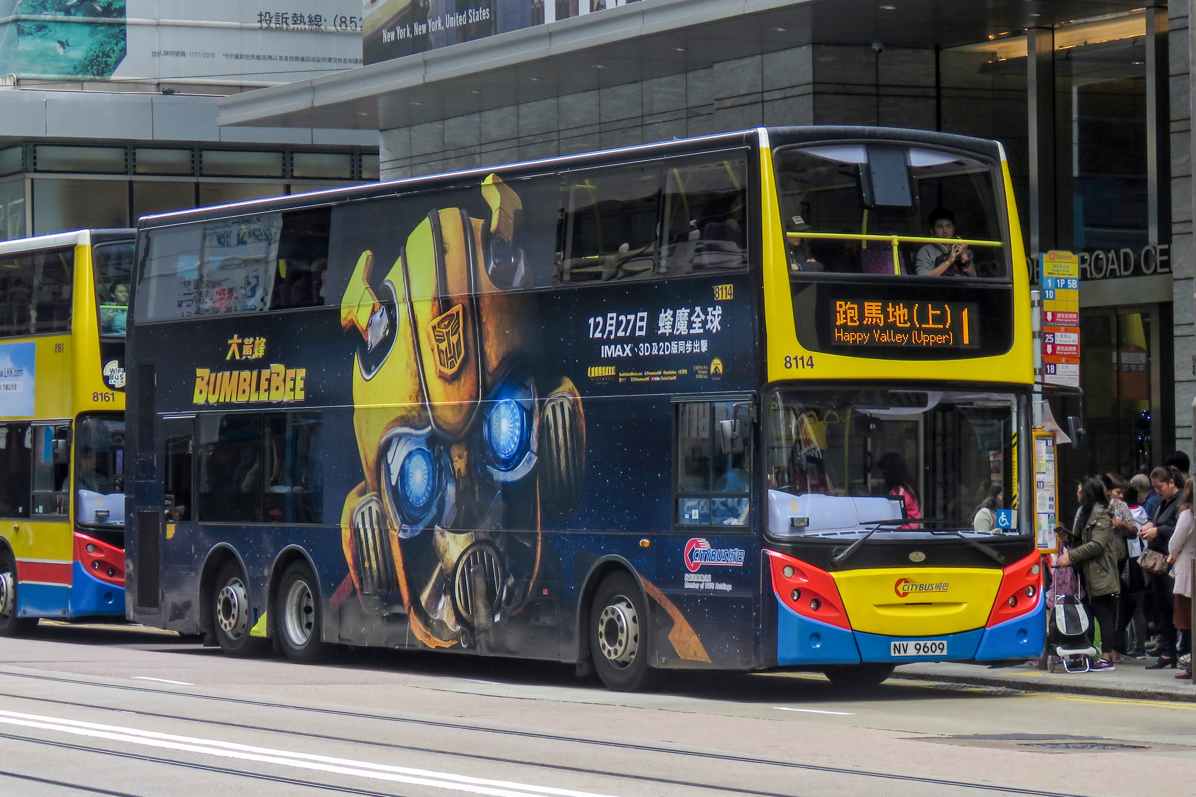 Bumblebee humming from west to east.